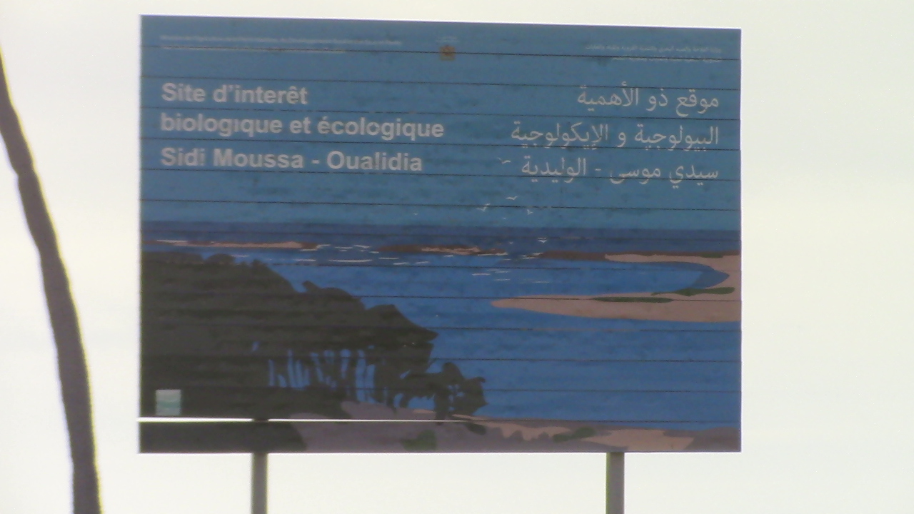 Sidi Moussa Lagoon Nature Preserve - View